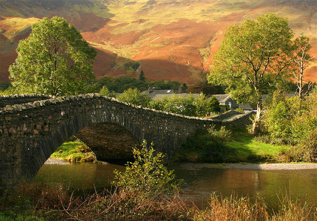 Grange Bridge., near to Grange, Cumbria, Great Britain. This lovely old bridge spans the River Derwent at Grange, near Keswick.